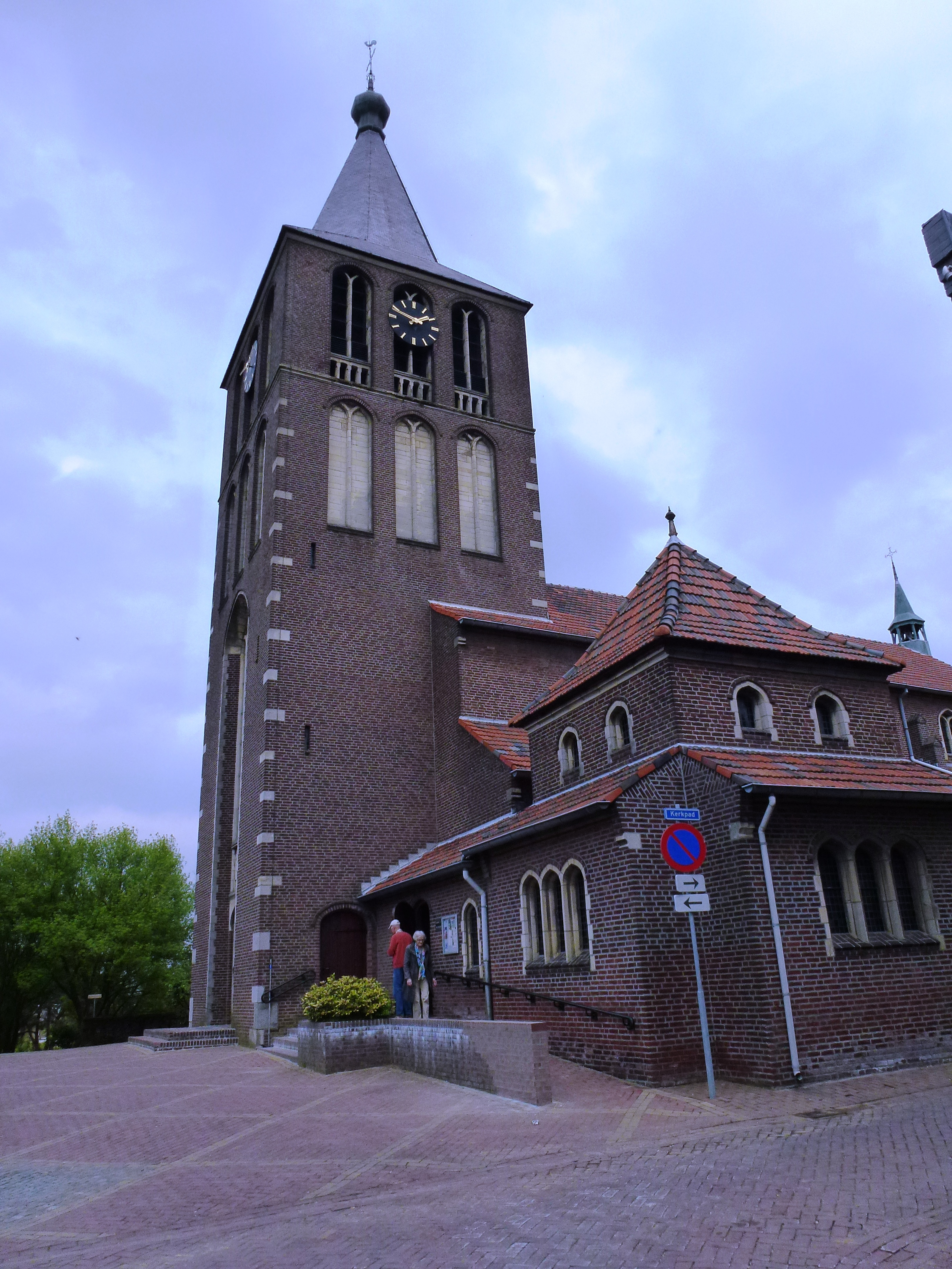 Herten, Roermond, kerk, toren